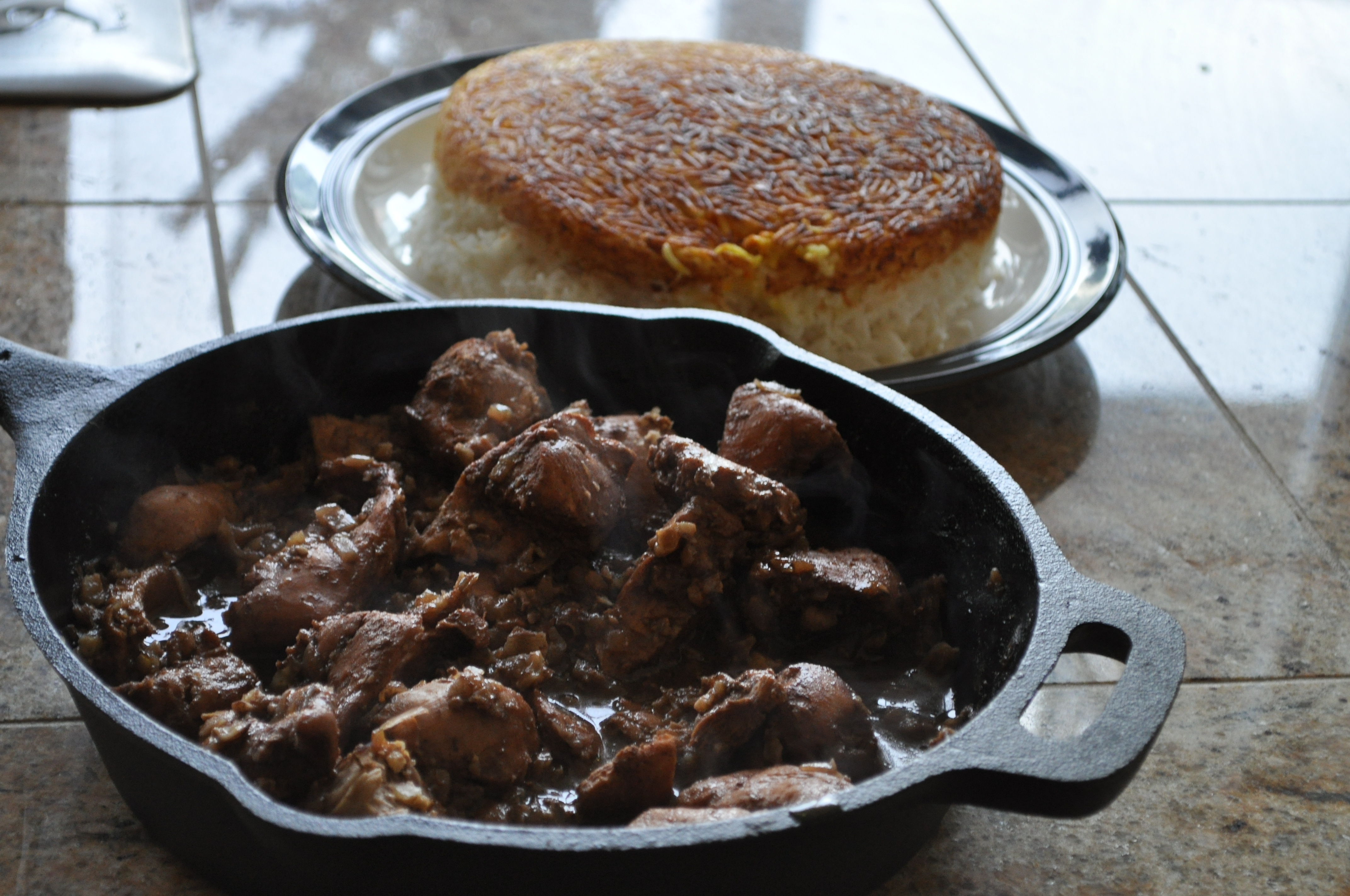 Fesenjān, a Persian stew of meat, pomegranate juice, and ground walnuts.